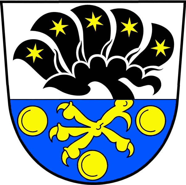 Coat of arms of Dražíč municipality, České Budějovice District (formerly Písek District), Czech Republic.